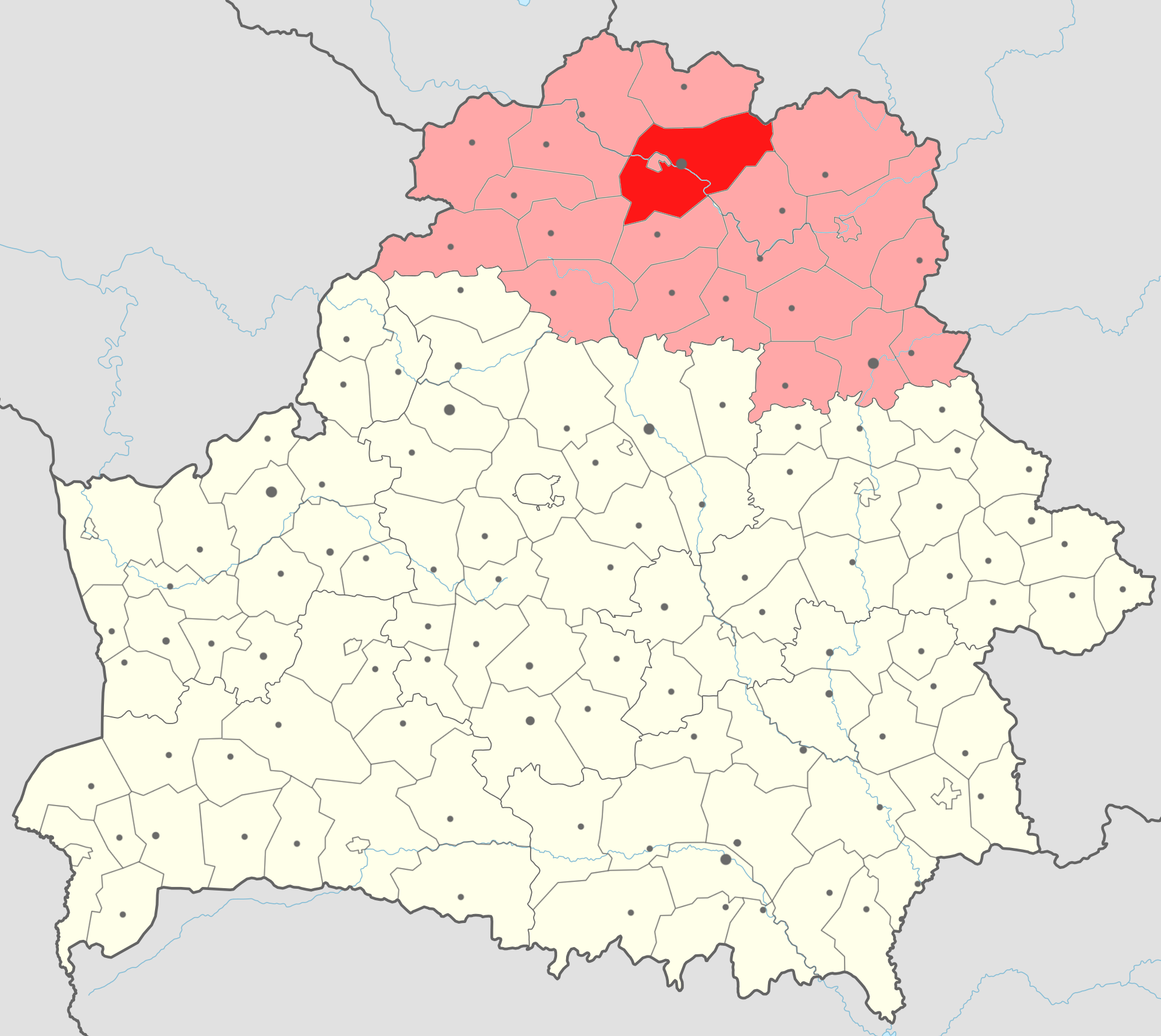 Map of Polacki raion (in red) with Viciebskaja voblast' (in light red) on the map of Belarus.